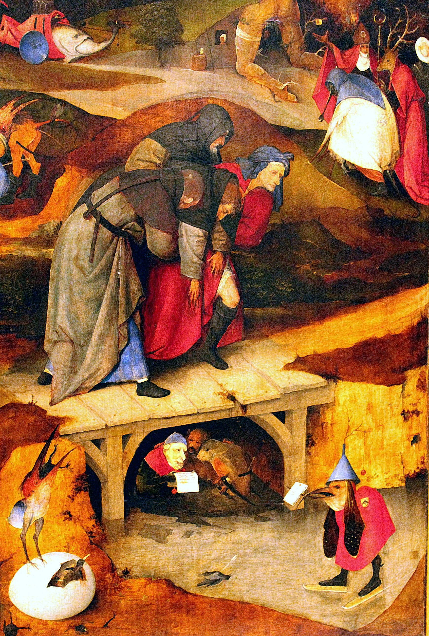 Lisbon, Museum Nacional de Arte Antiga, Hieronymus Bosch, the Temptation of Saint Anthony